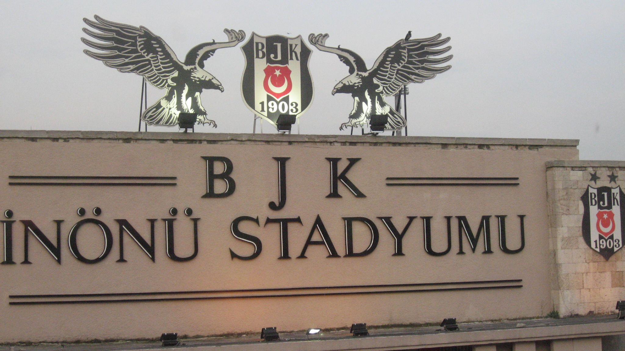 BJK Inönü Stadium facade and the eagles.